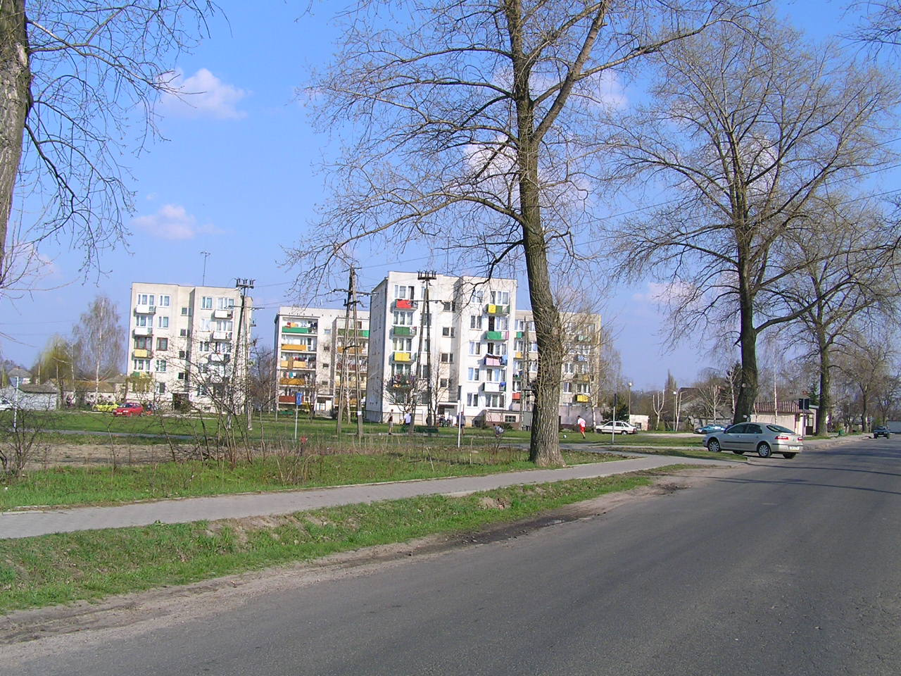 autor: Yarek shalom 22:02, 10 October 2006 (UTC)yarek shalom